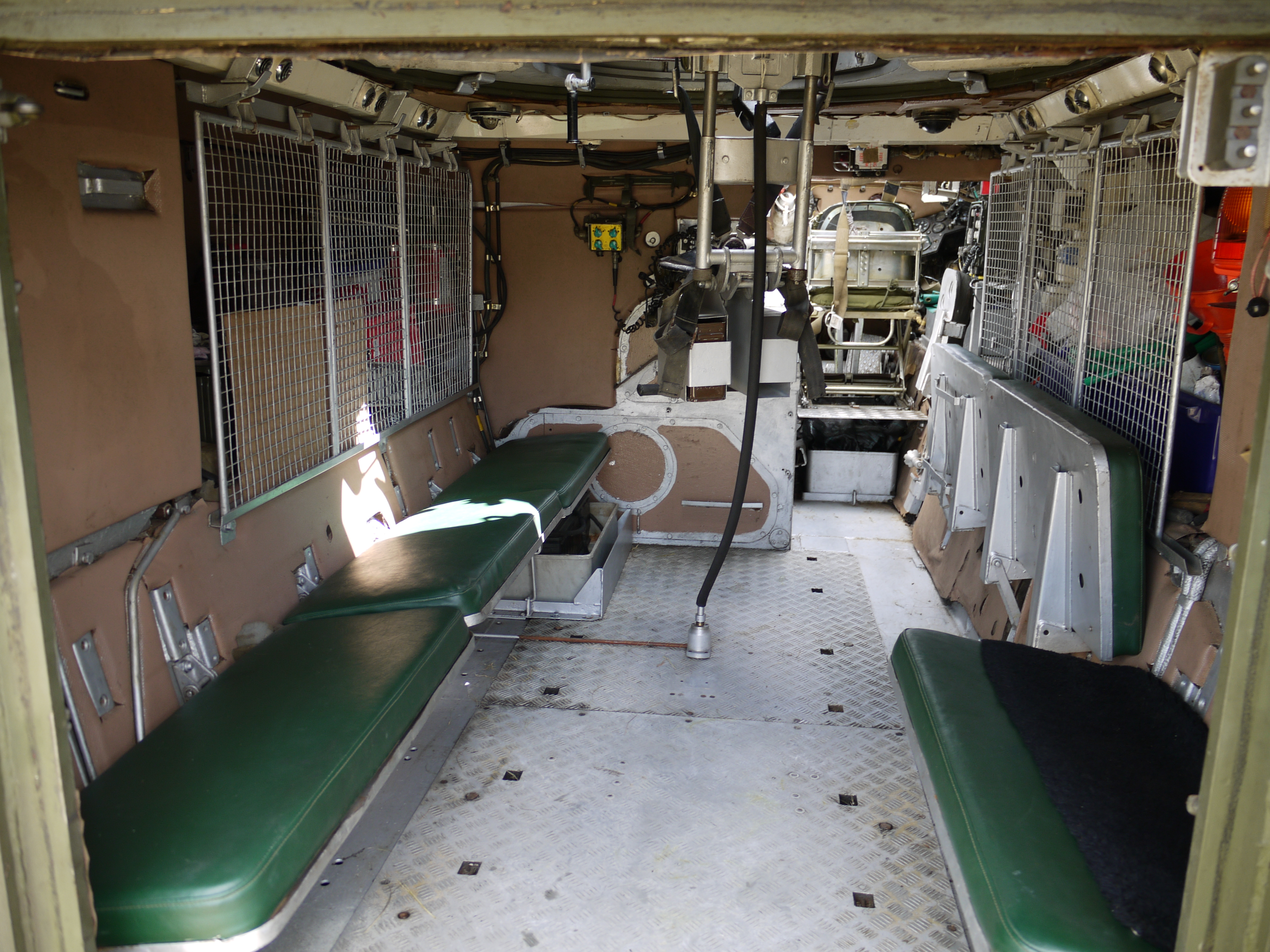 Photo of the interior of an FV432